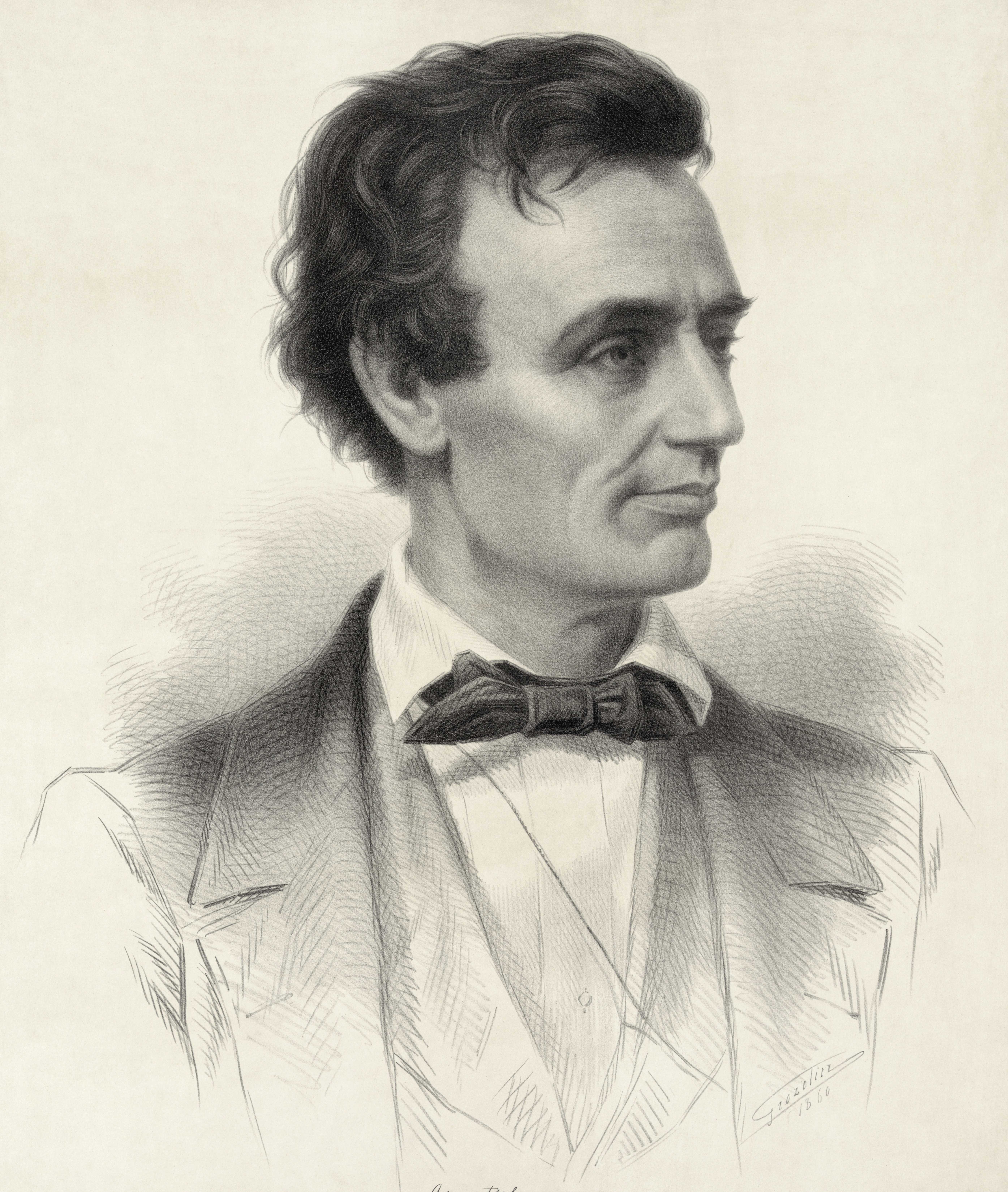 "Hon. Abraham Lincoln, Republican candidate for the presidency, 1860" - Lithograph by Leopold Grozelier, et al, showing the young Abraham Lincoln, before he grew his iconic beard. According to the Library of Congress, "Thomas Hicks painted a portrait of Lincoln at his office in Springfield specifically for this lithograph." This painting is in the collections of the Chicago Historical Society.